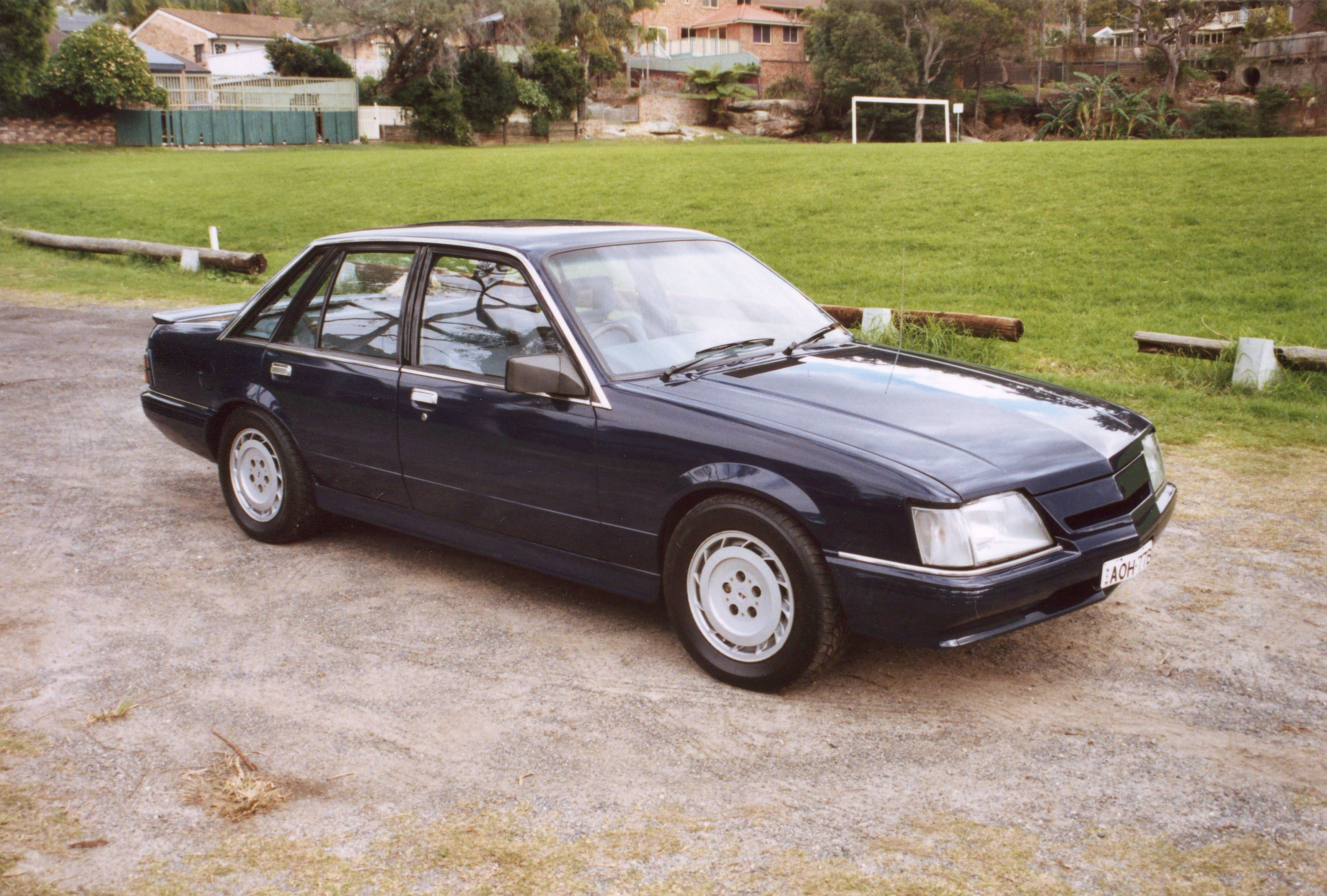 This image is a scan of a 35mm print taken in 2003 of my HDT Commodore